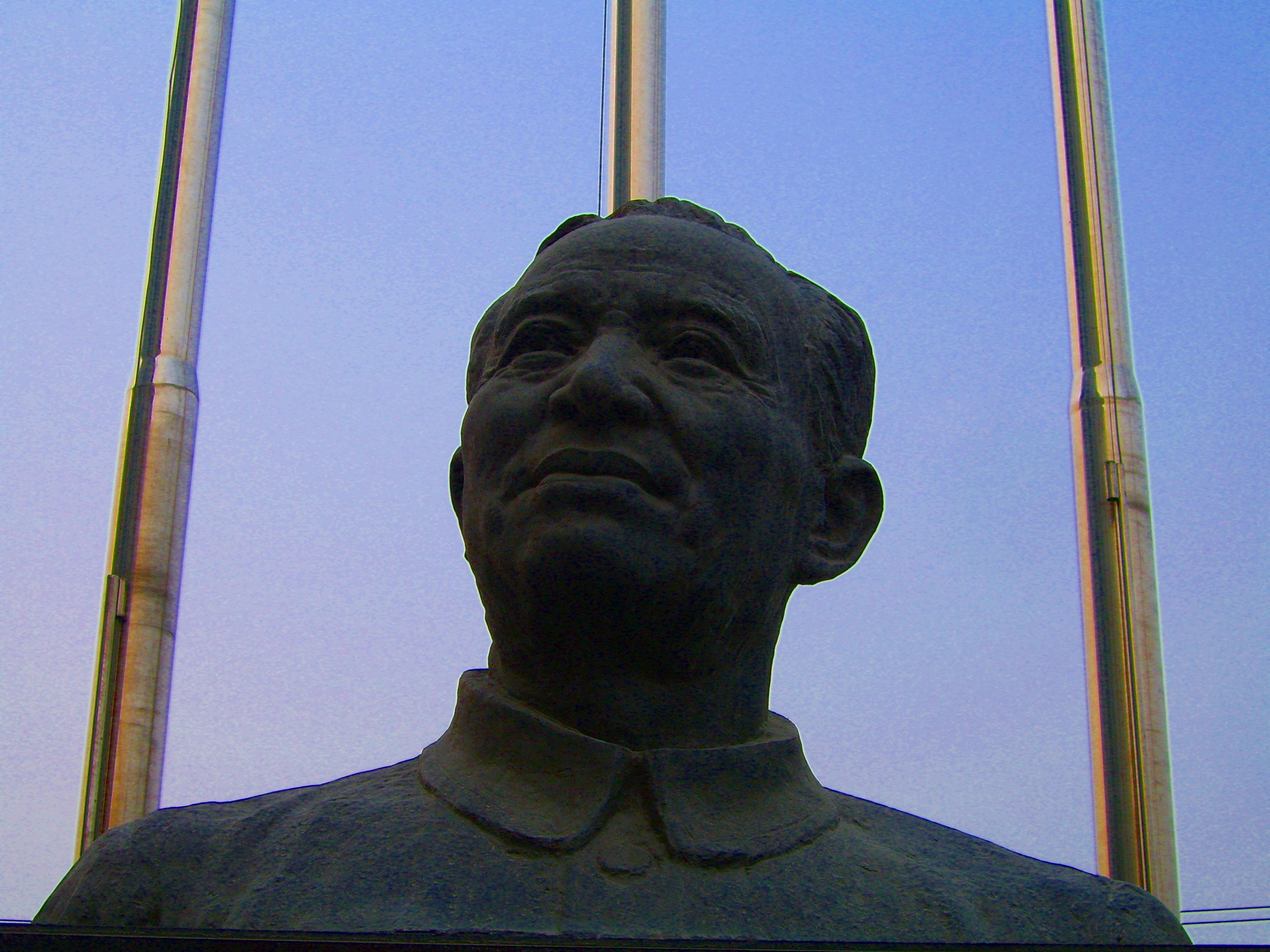 Statue of Li Siguang in front of the Geological Museum of China